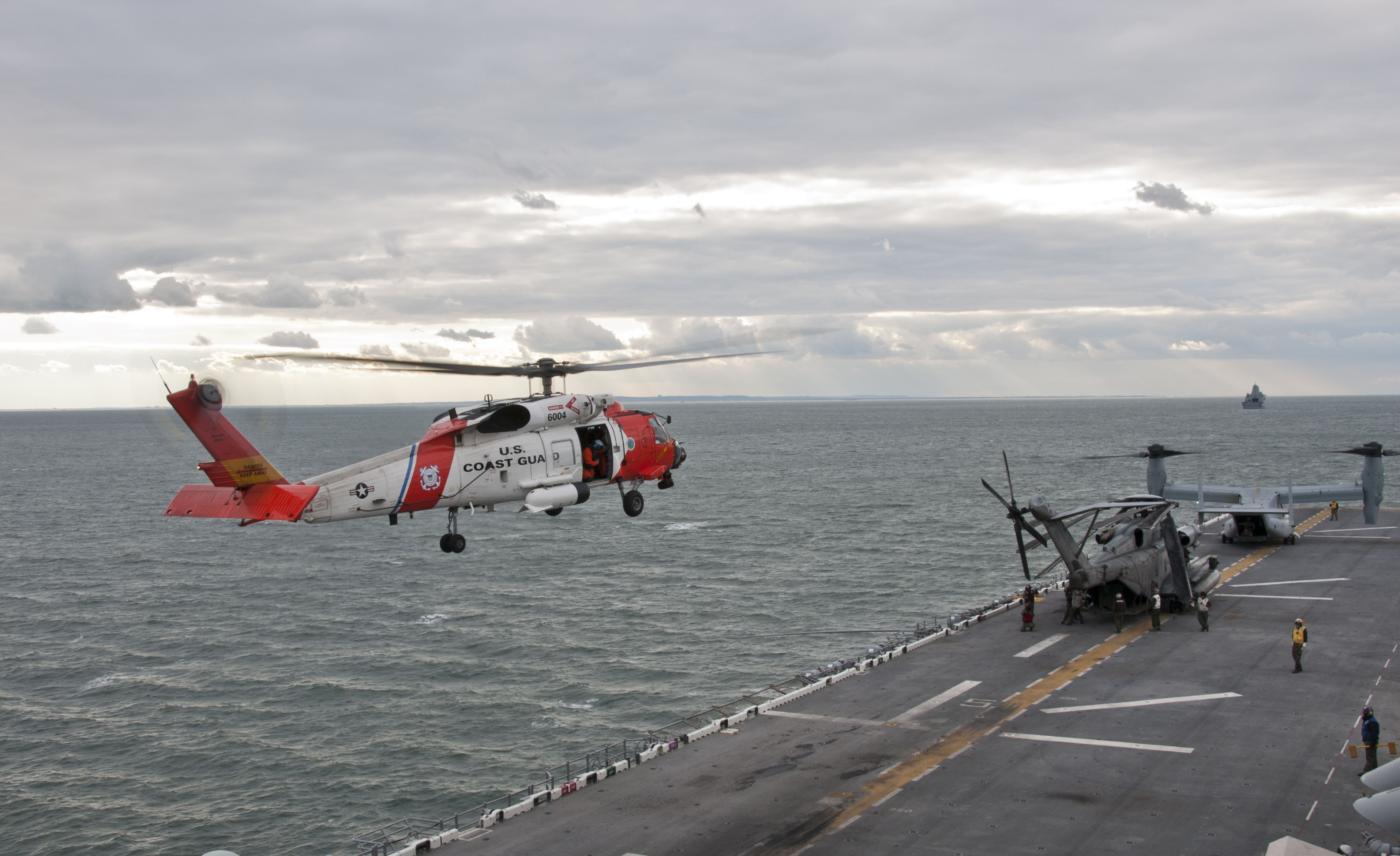 ATLANTIC OCEAN (Nov. 2, 2012) A U.S. Coast Guard helicopter prepares to land on the flight deck of the amphibious assault ship USS Wasp (LHD 1). For prudent planning, the Navy has begun to preposition Wasp, USS San Antonio (LPD 17) and USS Carter Hall (LSD 50) for primary assistance in the affected North East region if required by FEMA following the devastation brought on by Hurricane Sandy. San Antonio and Carter Hall got underway Oct. 31 from Norfolk, Va., and began transiting north to the affected areas on Nov. 1. (U.S. Navy photo by Mass Communication Specialist Seaman Markus Castaneda/Released) 121102-N-WI365-326 Join the conversation navylive.dodlive.mil